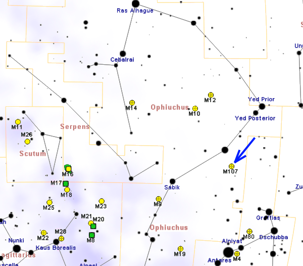 Map of M107